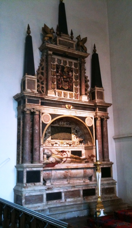 The ornate tomb of Sir William Paston, St Nicholas Church, North Walsham